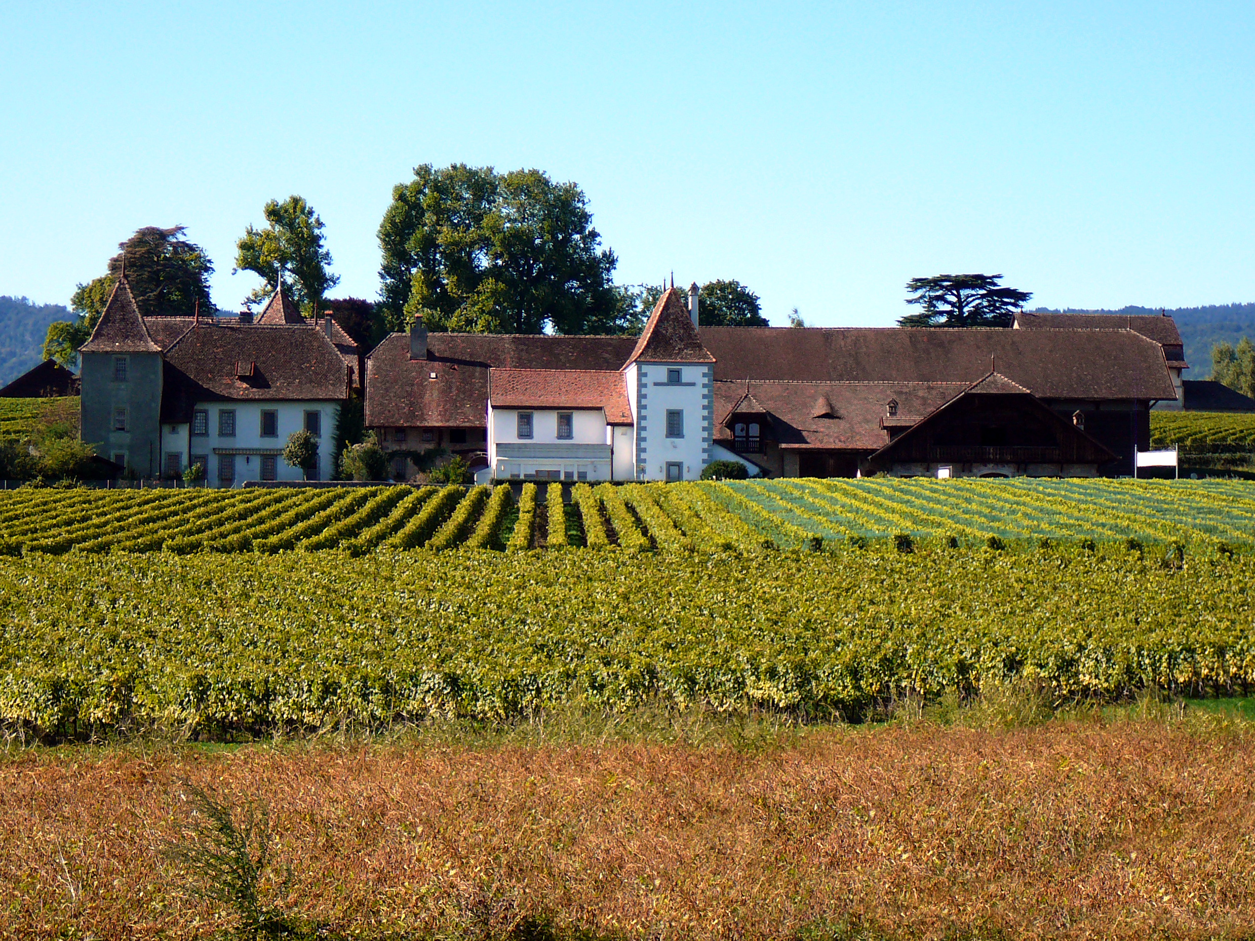 Panorama of the Duillier Castle, in Switzerland